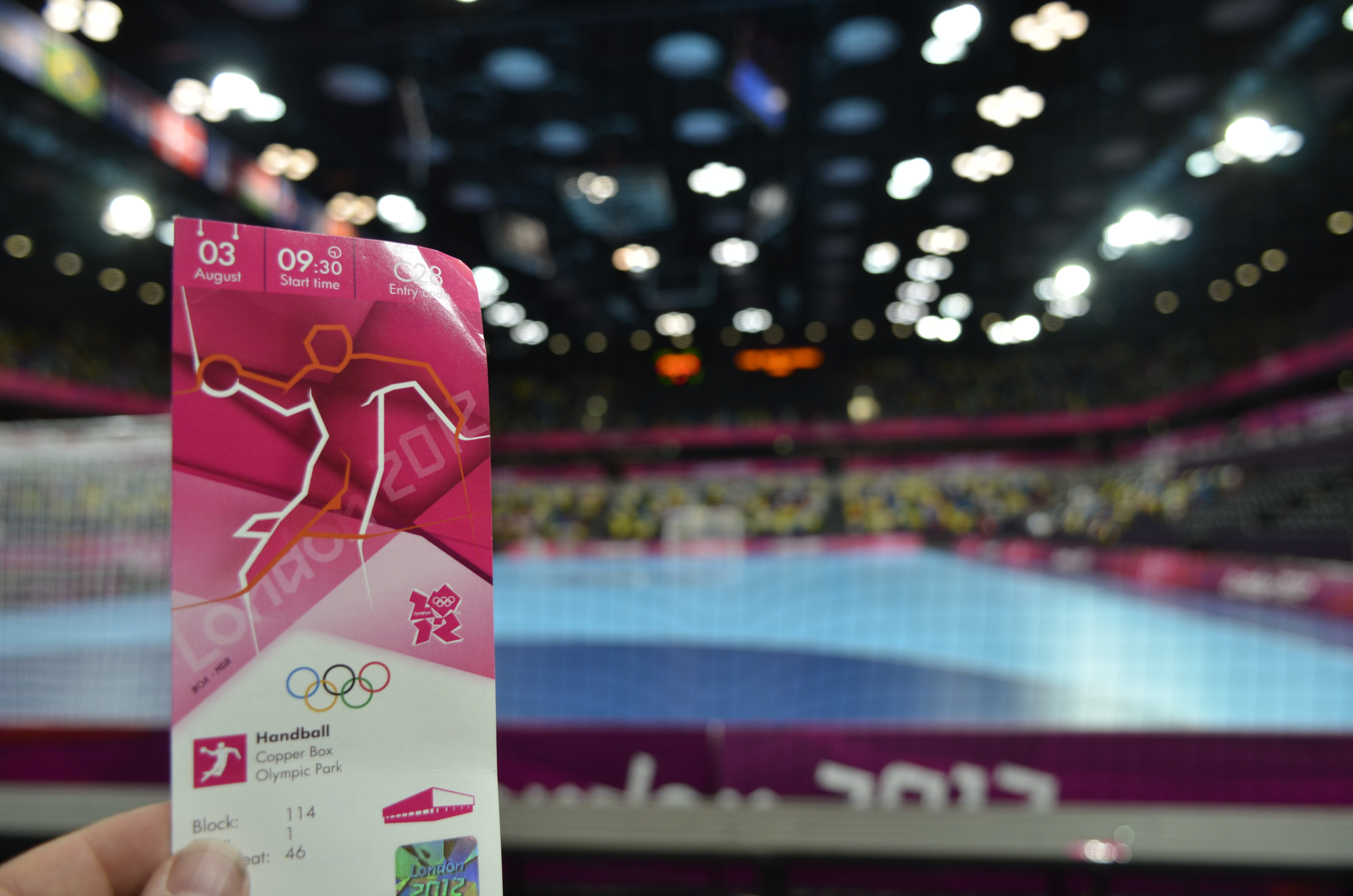 Ticket - Handball at the 2012 Summer Olympics